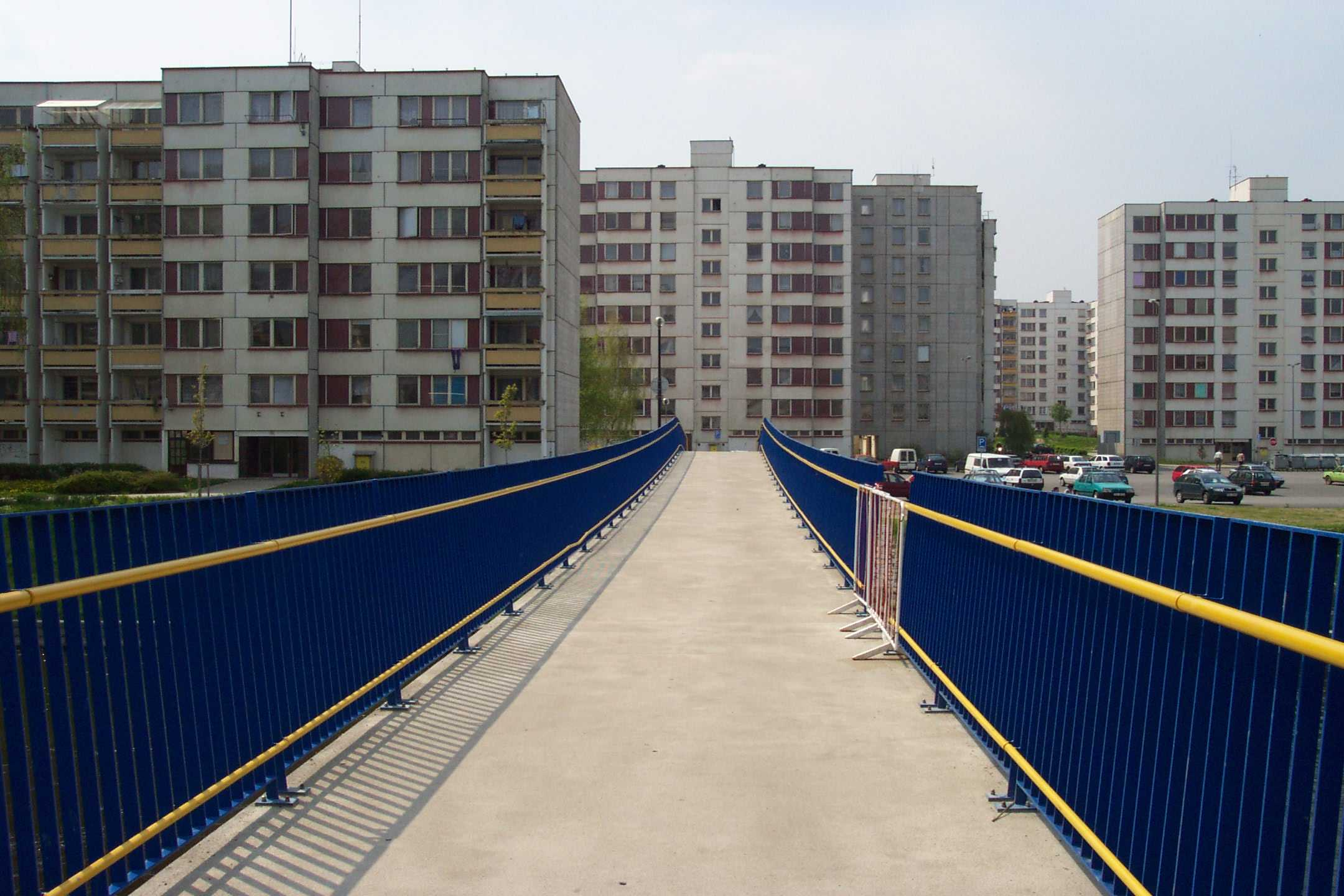 Bridge at Pražské Předměstí, Písek, Czech Republic